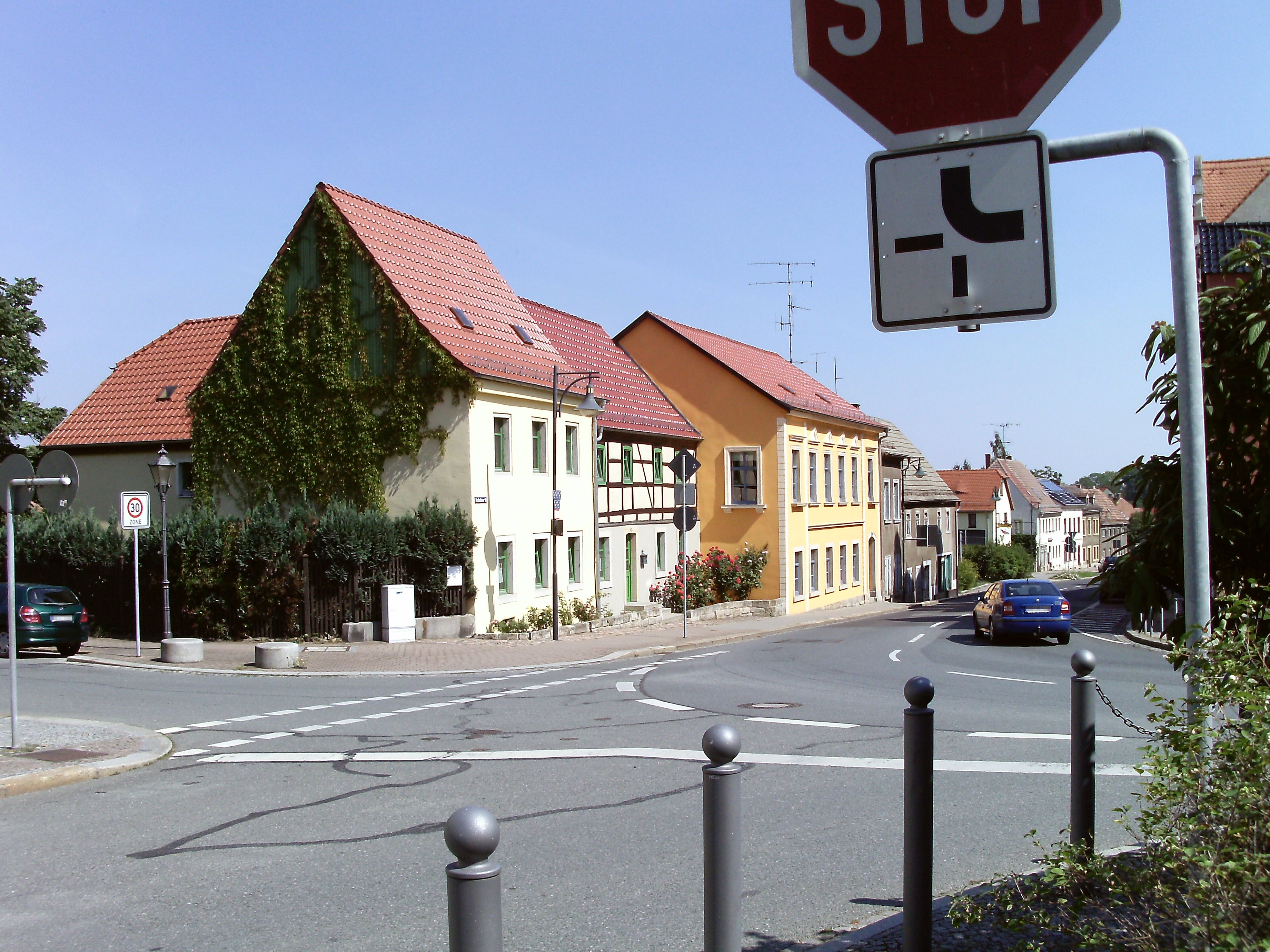 Eastern part of Grossenhainer Strasse in Riesa (Meissen district, Saxony)